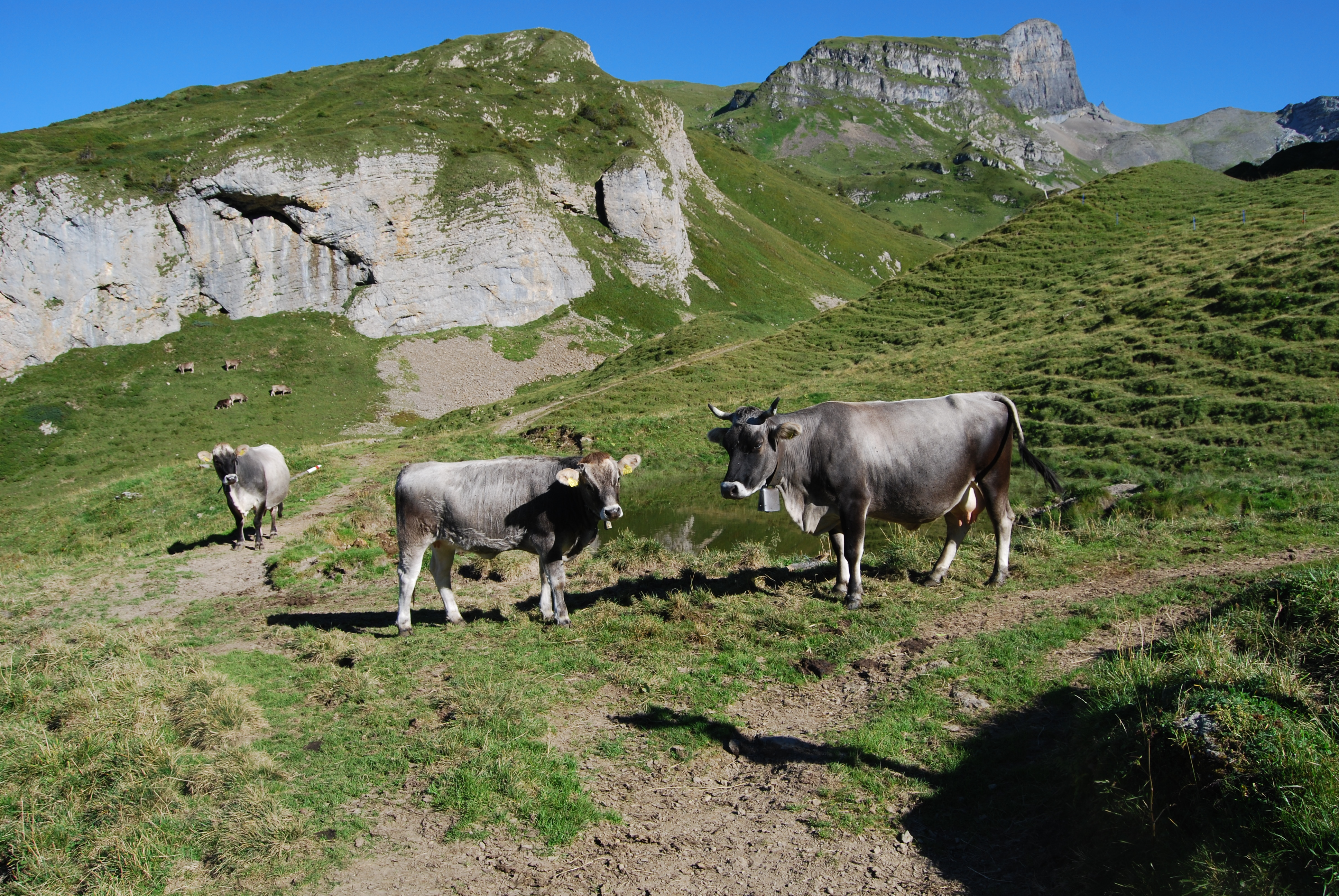 Spilau, municipality of Sisikon, canton of Uri, Switzerland